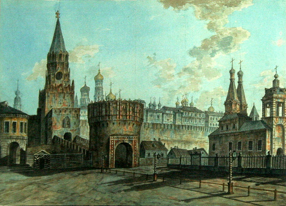 The Moscow Kremlin. Left: the Trinity tower. Center: the Kutafya tower. Right: the Church of St Nicholas in Boots.